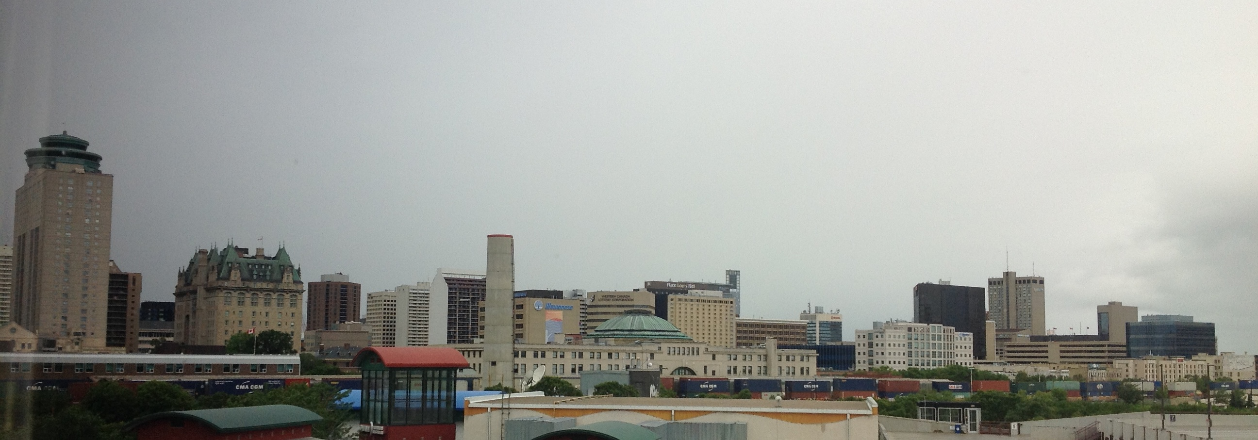 Union Station in Winnipeg, Manitoba